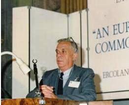 Captain EM Emanuel Klemperer in the forum for shipping Herculanum